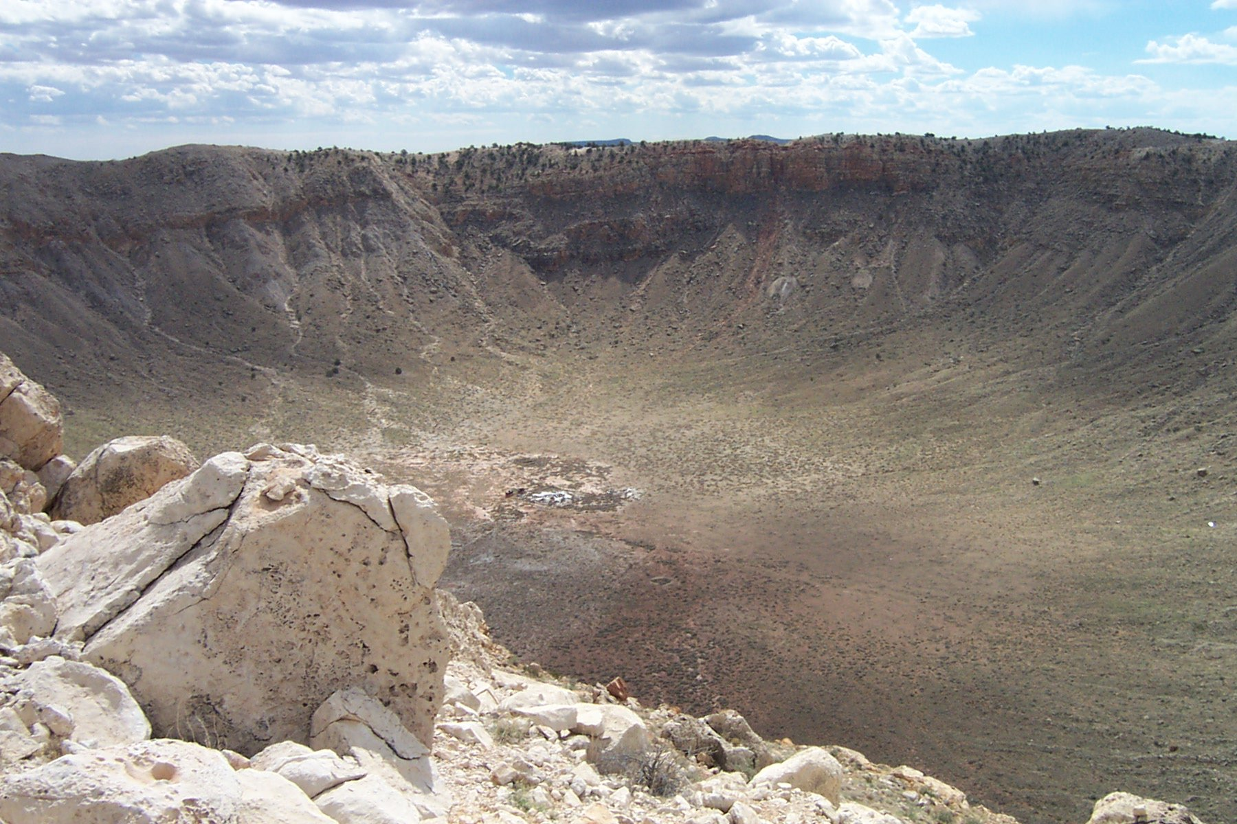 Barringer Crater